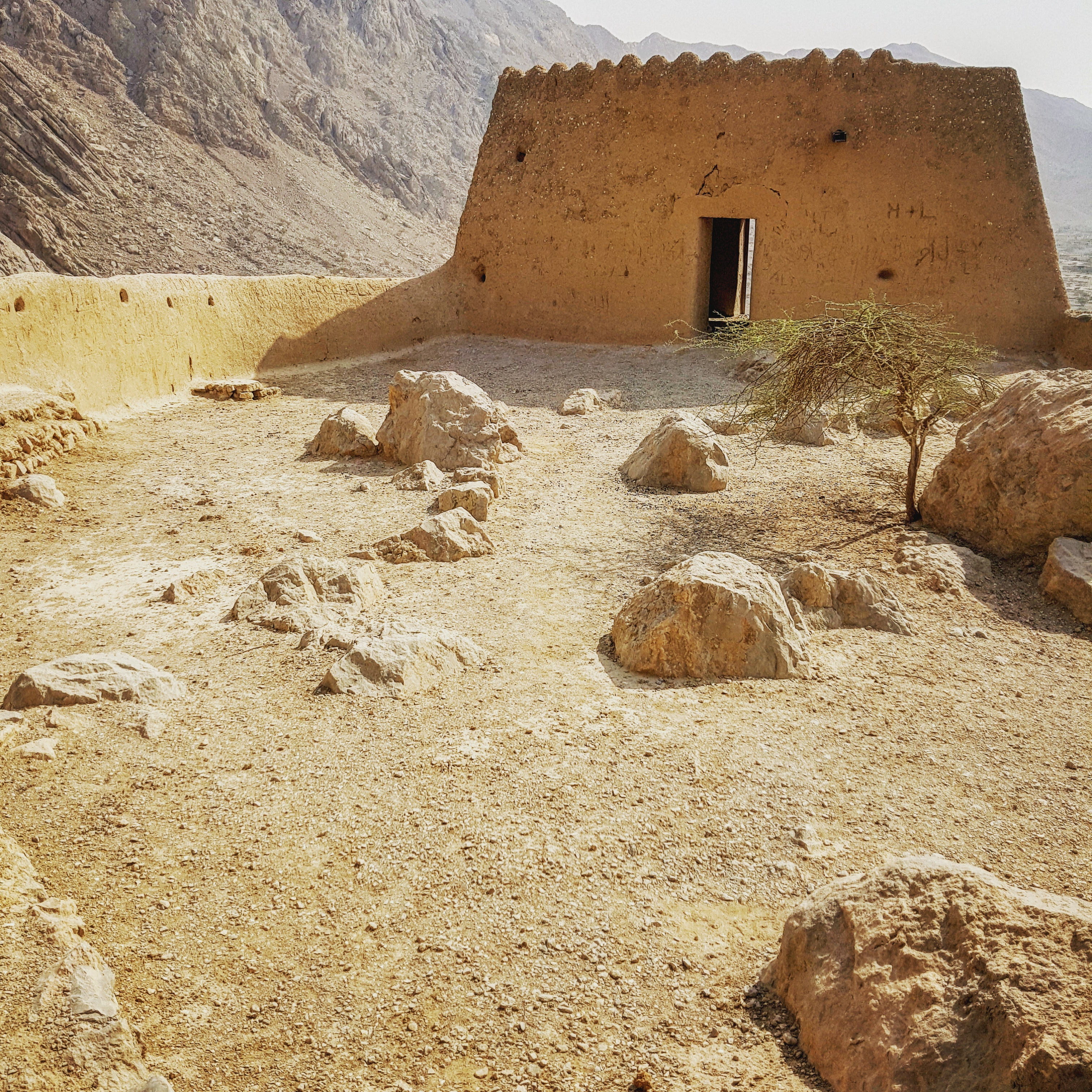 This is the extent of the area of Dhayah Fort. Two small buildings at either end are separated by this flat ground, which used to contain 'areesh' - palm front huts. During the seige of Dhayah, 800 men, women and children lived in this space without sanitation or water for three days under bombardment.